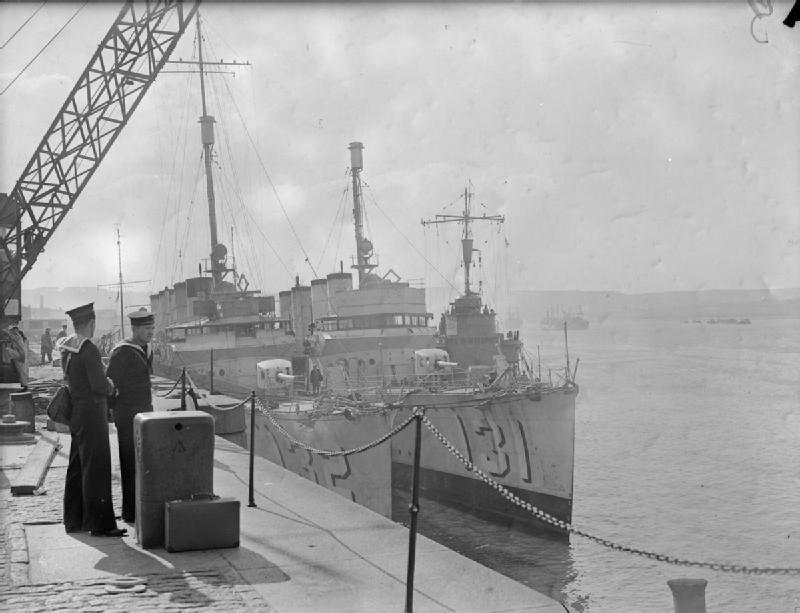 IWM caption : Two destroyers photographed shortly after the Royal Navy acquired them from America under the Destroyers for Bases agreement HMS CASTLETON, left, and HMS CAMPBELTOWN, lying side by side while undergoing refit. The ships were sailed across the Atlantic by British crews. On the left are two Polish sailors.